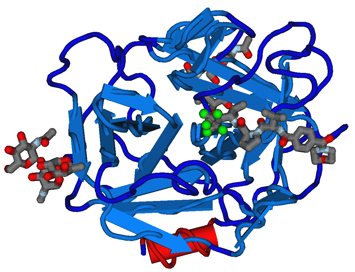 1B0F_Human_Neutrophil_Elastase